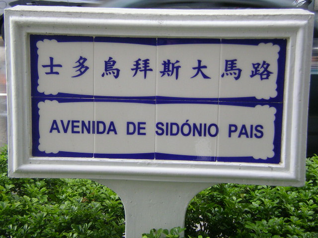 This is taken by Macanese馬交人in Macau.